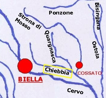 Chiebbia creek location (BI, Italy)